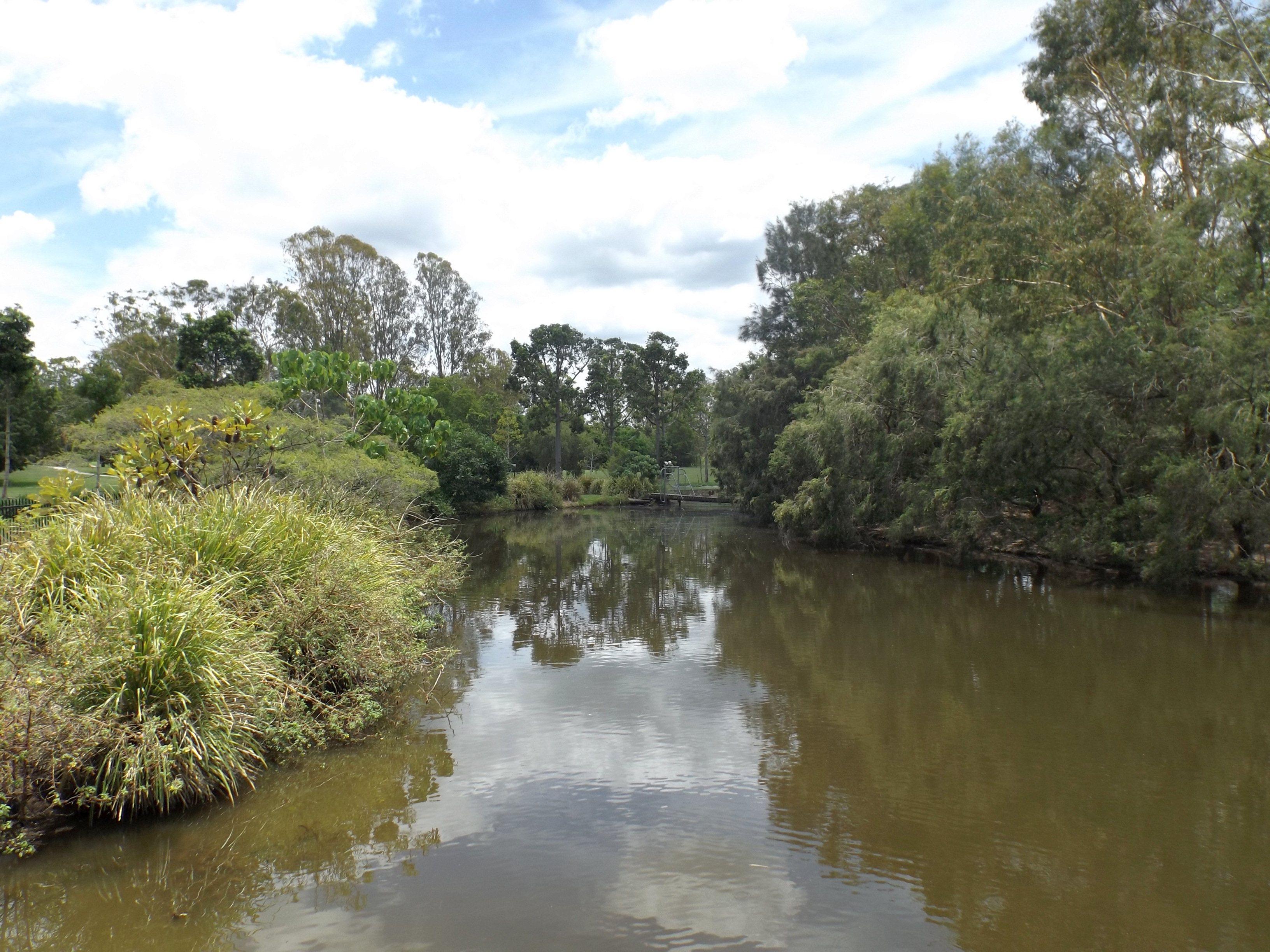 Photo of wetlands at Sherwood Arboretum in Sherwood, Brisbane, Queensland, Australia.